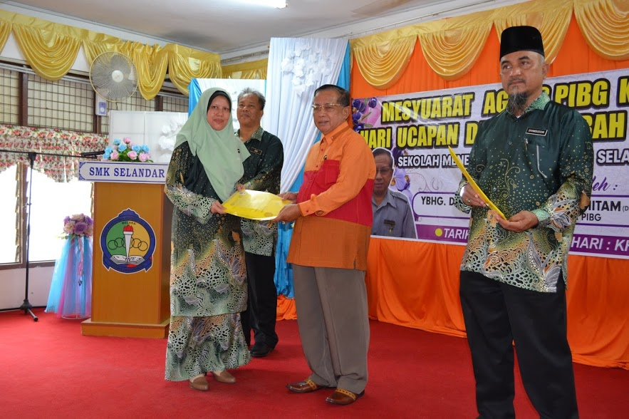 GAMBAR 14